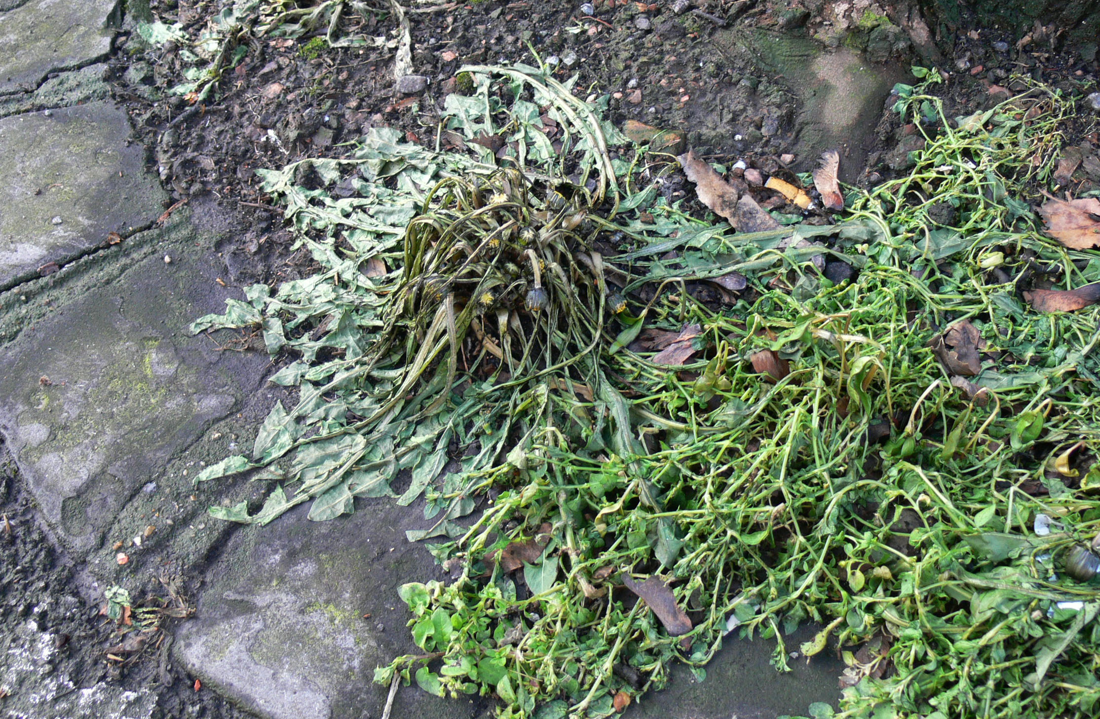 Weed heat (48 h after surgery) at the feet of urban trees (Lille, France), as an alternative to herbicides (another alternative would have been to let the plants grow at the foot of trees, with a simple cut 1 to 2 times year).